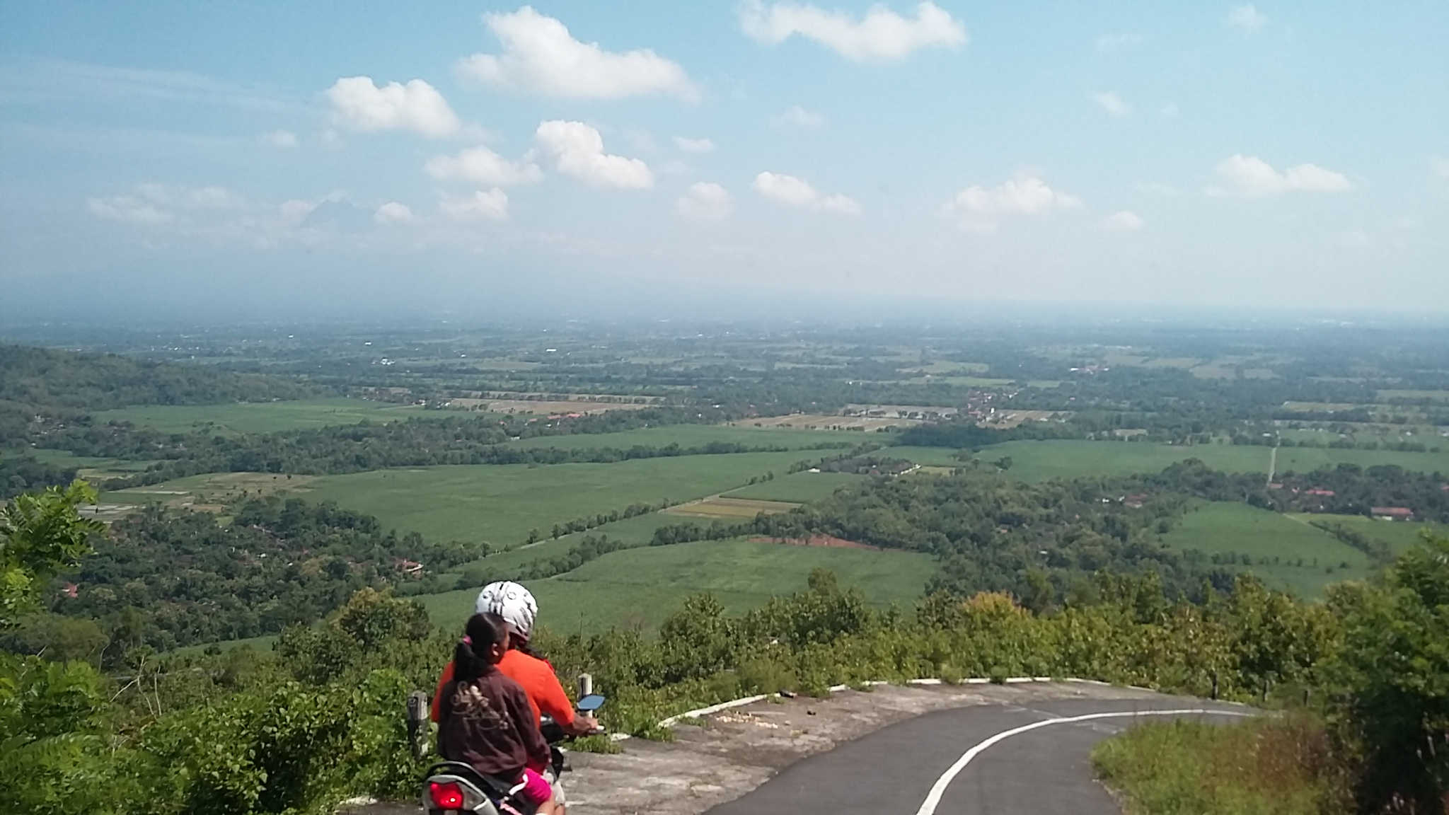 The photo was taken in a hill in Gunungkidul Regency. The view of Gunungkidul and its nearby regencies could be seen in the picture.